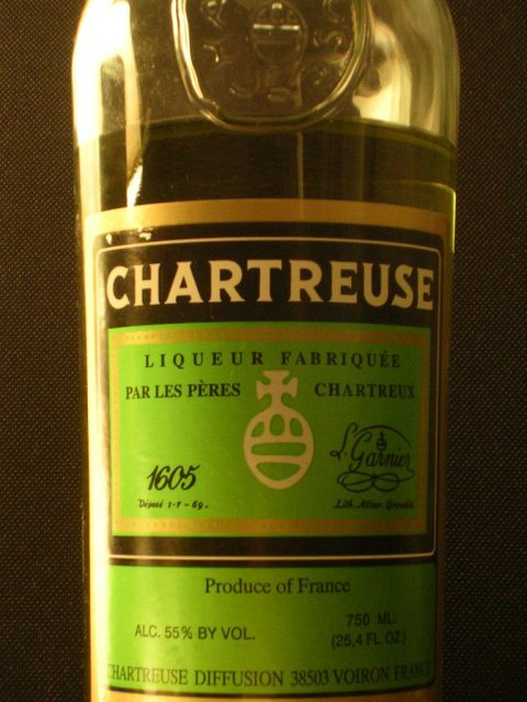 Re-upload of the Commons image Chartreuse.jpg (a bottle) which was overwritten with a completely irrelevant image (an old map) by another user on August 2, 2006. Since this one is smaller and the newer image is already in use on other projects as well as on Commons, I reuploaded this one under a different, more descriptive name. Original author Jarv, version from 20:44, May 15, 2005. Original license: Copyleft: This work of art is free; you can redistribute it and/or modify it according to terms of the Free Art License. You will find a specimen of this license on the Copyleft Attitude site as well as on other sites.